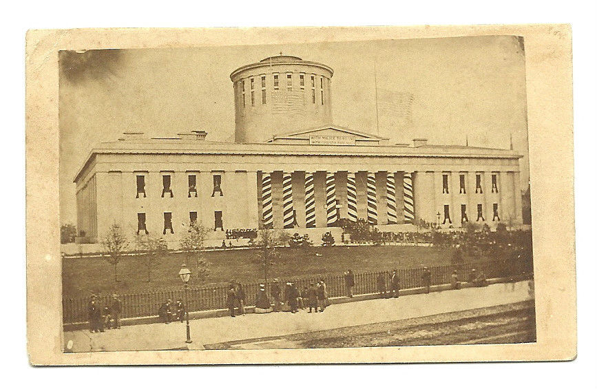 Lincoln funeral mourning in Columbus, Ohio